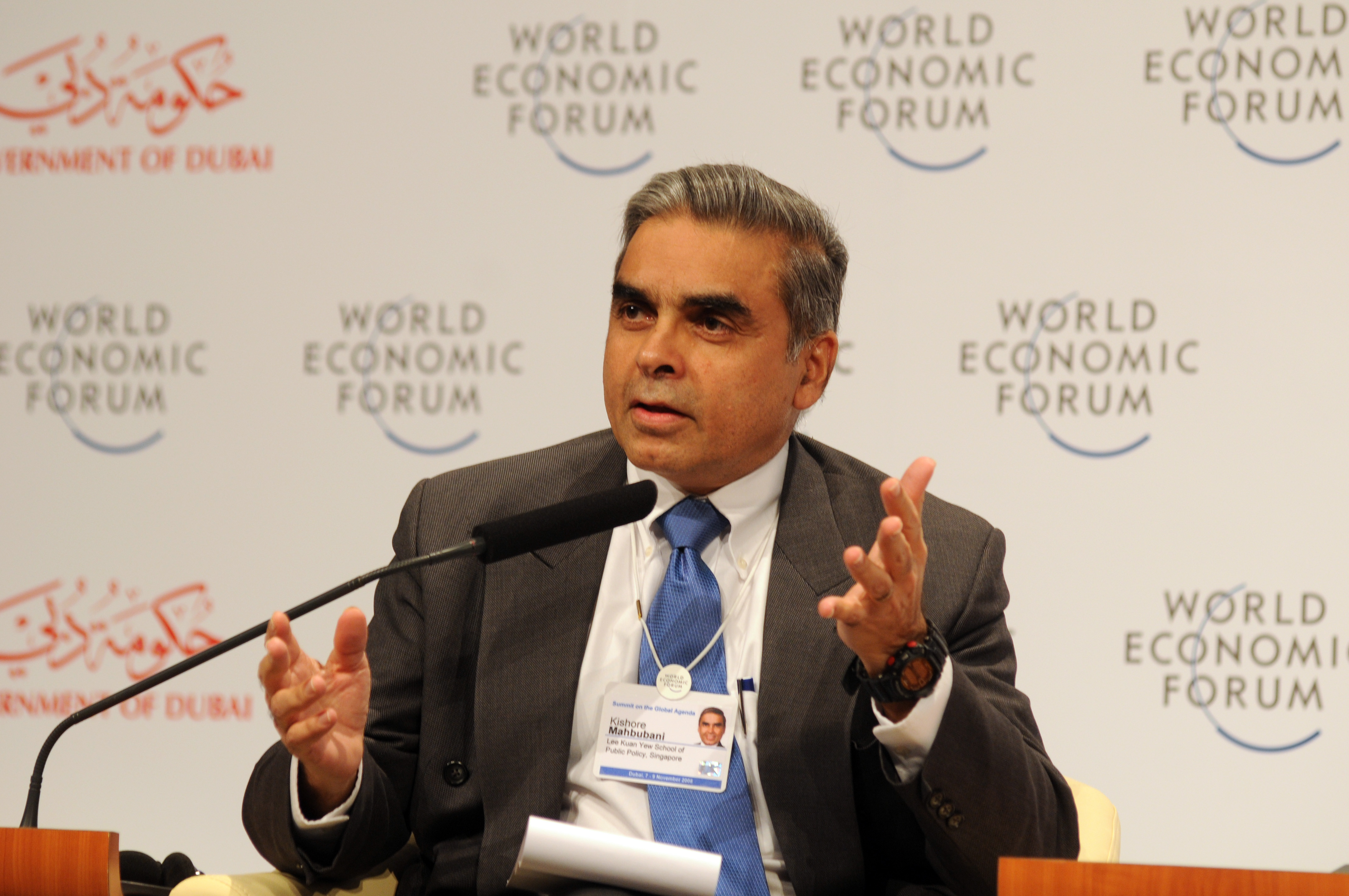 Kishore Mahbubani, Dean, Lee Kuan Yew School of Public Policy, Singapore, speaking at the World Economic Forum Summit on the Global Agenda 2008 in Dubai, United Arab Emirates.